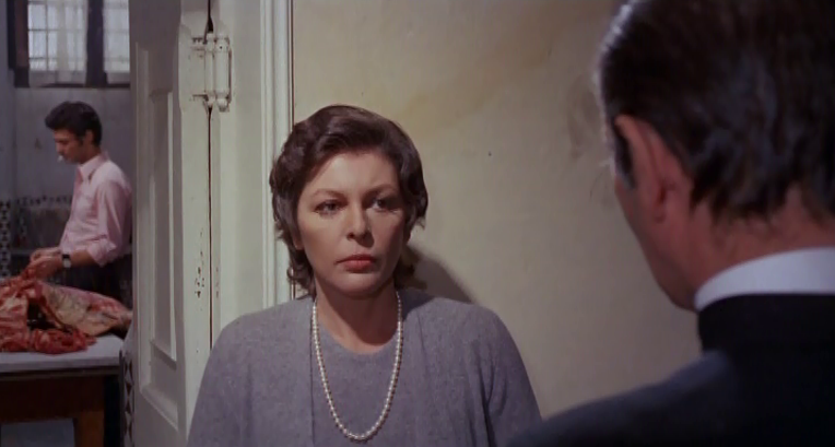 Screenshot from Italian film Quando l'amore è sensualità (1973)